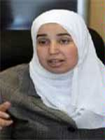 2011 International Women of Courage awards